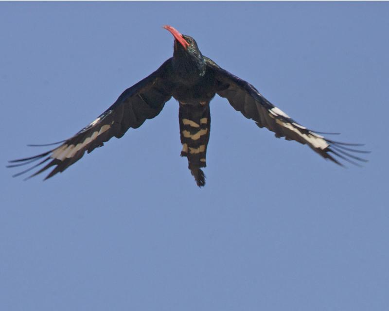 Green Woodhoopoe Phoeniculus purpureus ssp Phoeniculus purpureus angolensis 9th. August 2011 Khwai, Botswana Distribution: ssp: 690V4376